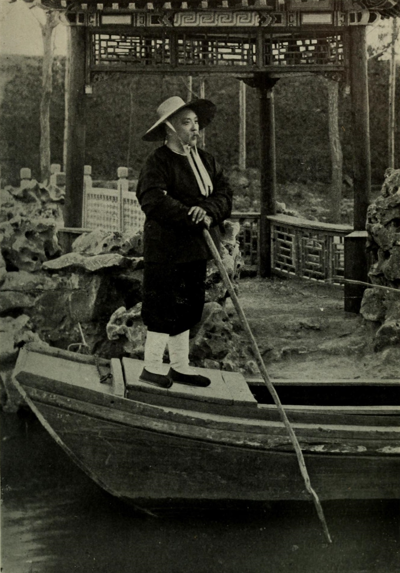 "Yuan Shikai on his country state."